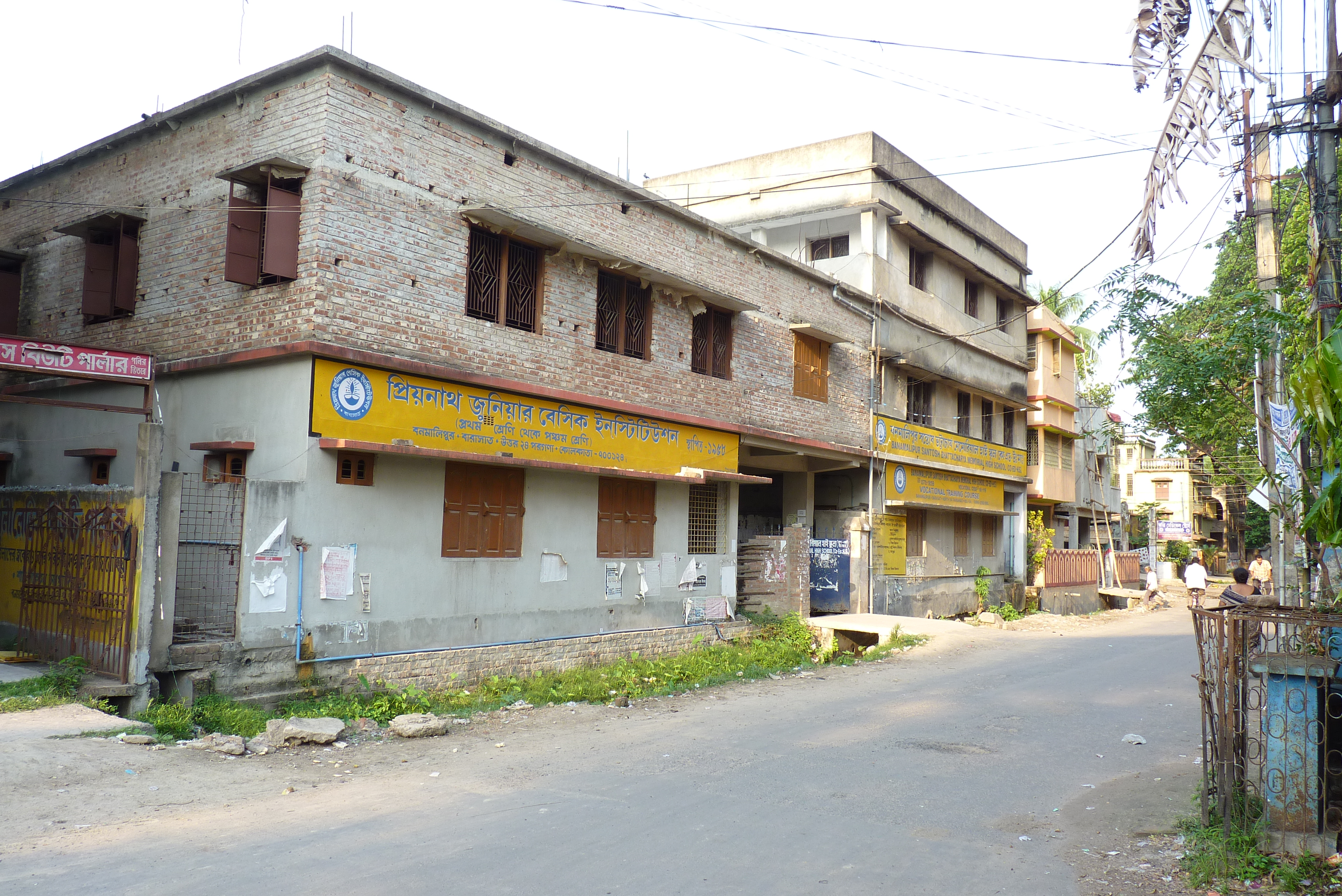 Primary, secondary and vocational school at Barasat.